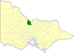 Location of the Shire of Rochester within Victoria.